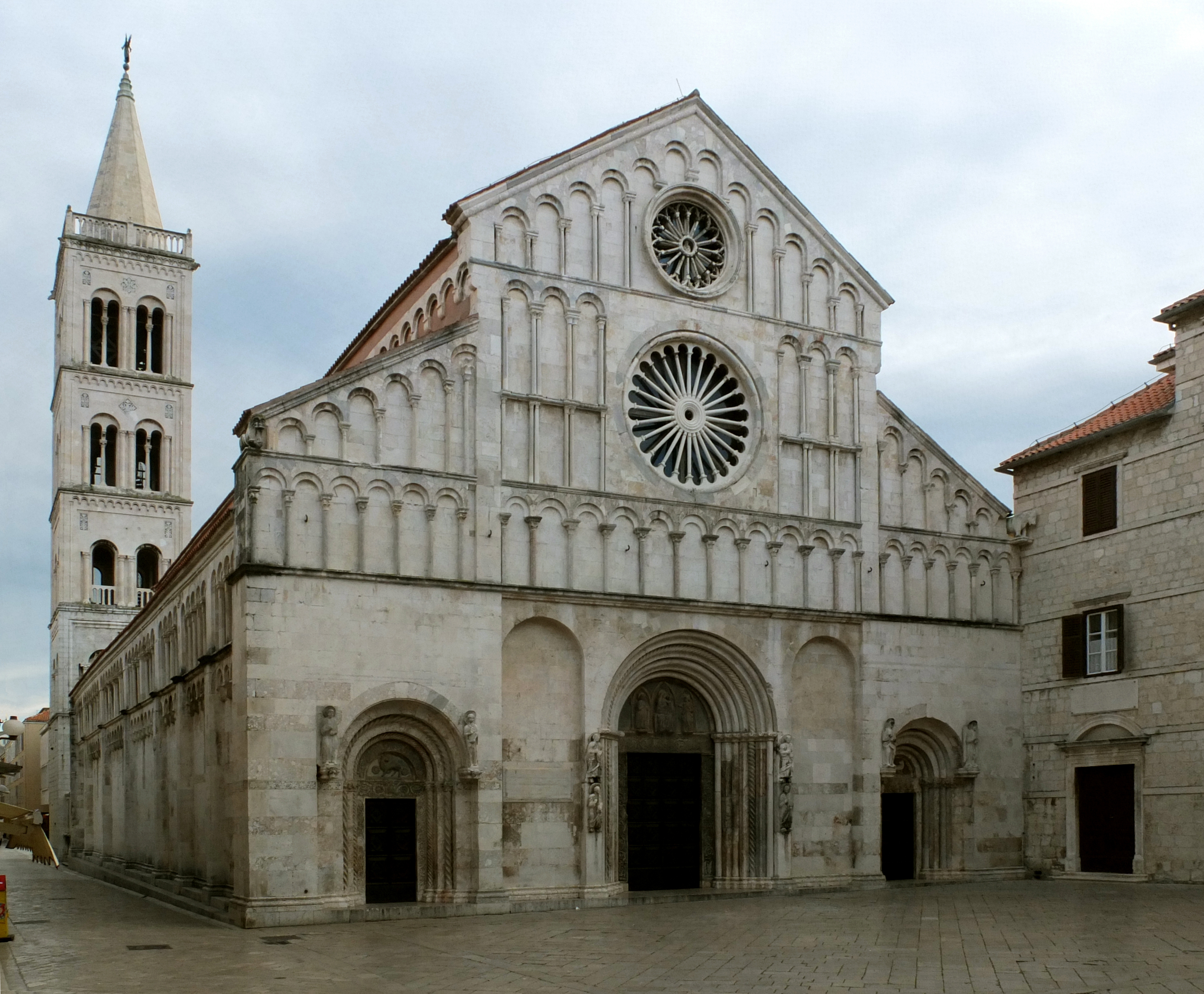 Zadar, Croatia: Cathedral of St. Anastasia (Croatian: Katedrala sv. Stošije, view from NNW)